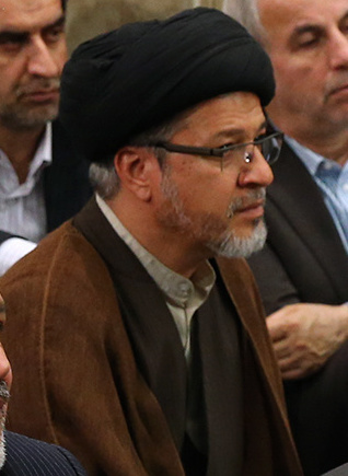 Seyyed Saied Reza Ameli in the Meeting attended by Poets and people of culture and literature with Ali Khamenei-June 2017